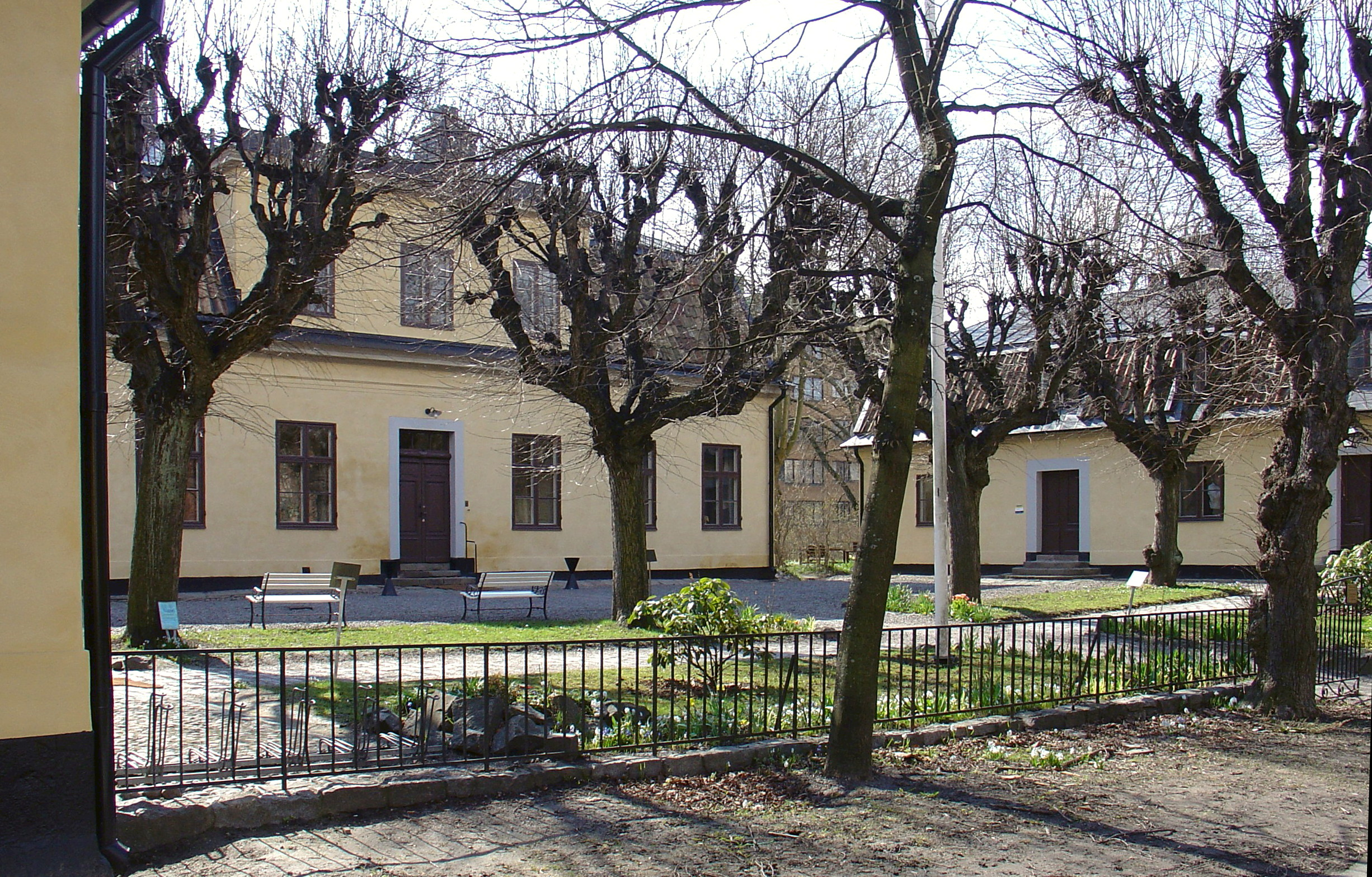 Kristinehov in Stockholm